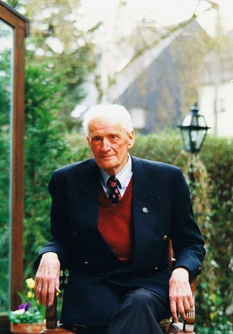 Author Gerd Herrmann